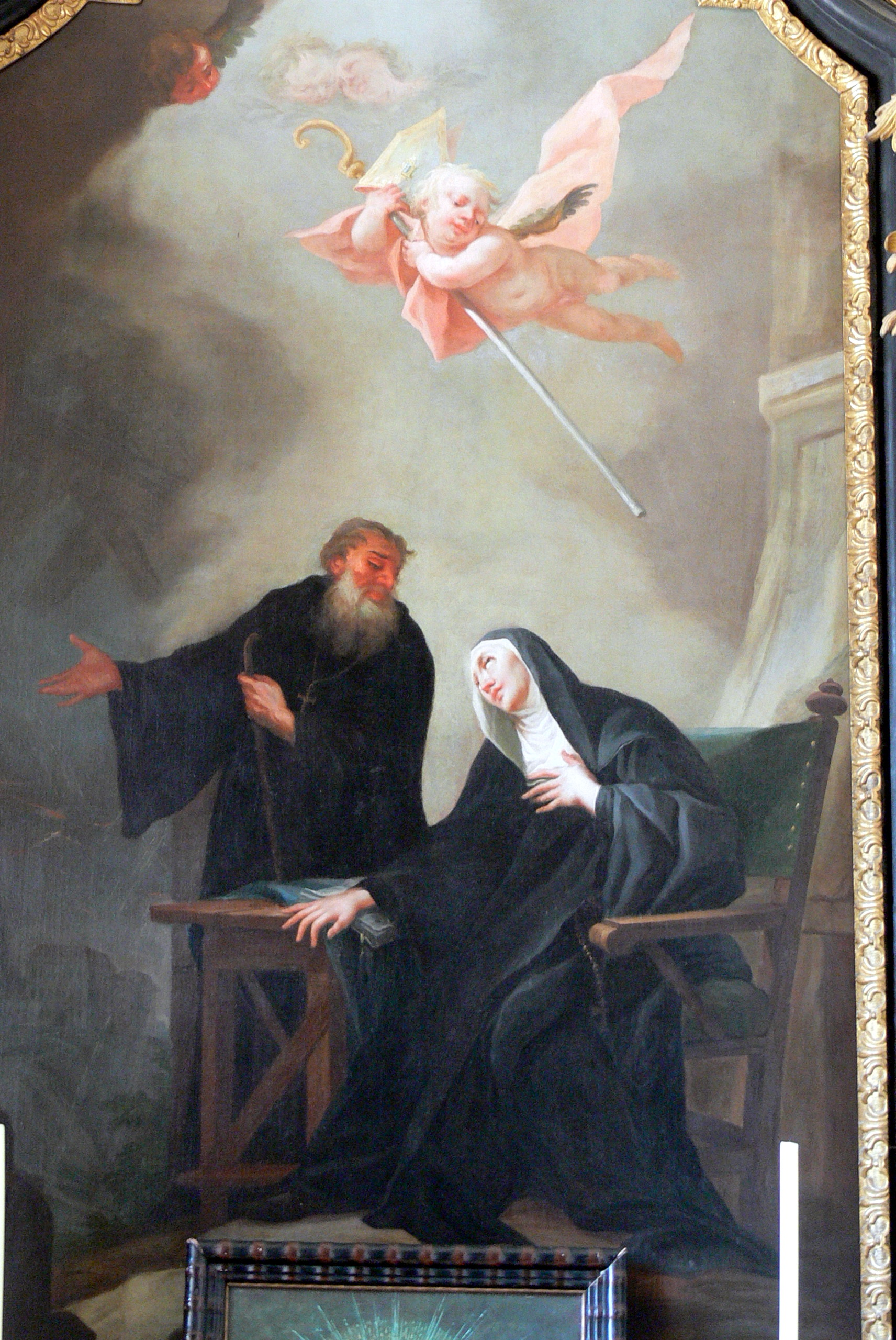 Saint Mary in Hafnerberg ( Lower Austria ). Tower chapel: Altar of Saint Benedict - Painting by Joseph Ignaz Mildorfer: Saint Benedict and Saint Scholastica.